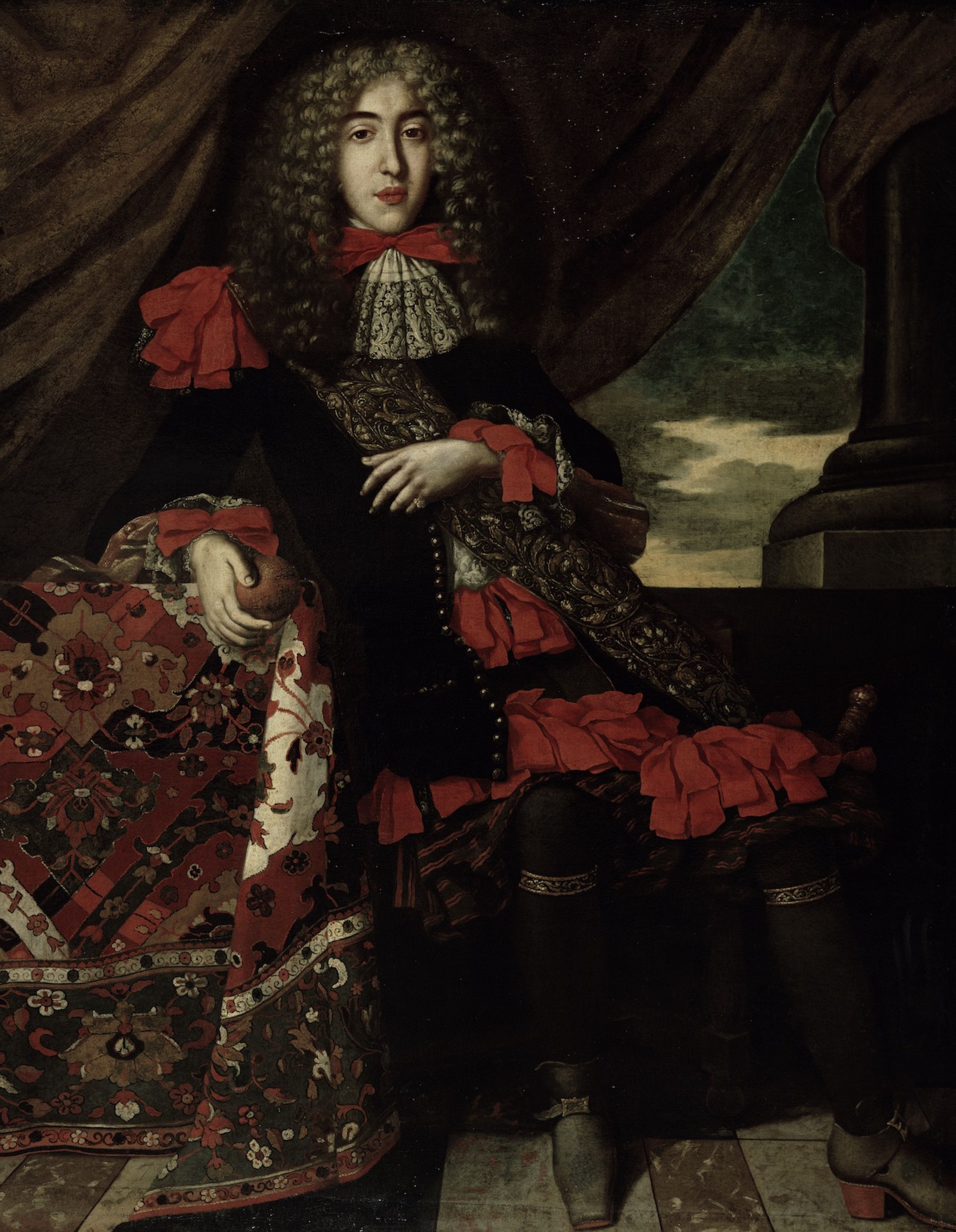 A portrait of Francisco Lopes Suasso as a young man